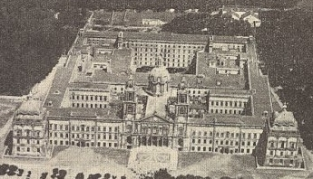 Mafra Monastery, in Portugal. This image was published on the Gazeta dos Caminhos de Ferro magazine no. 1169, of the 1st September 1936, and scanned by the Hemeroteca Municipal de Lisboa.